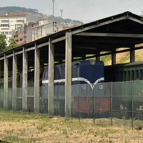 CP 1404